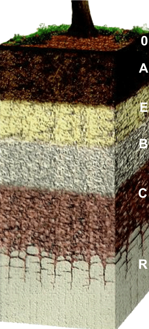 Horizonti zemljišta